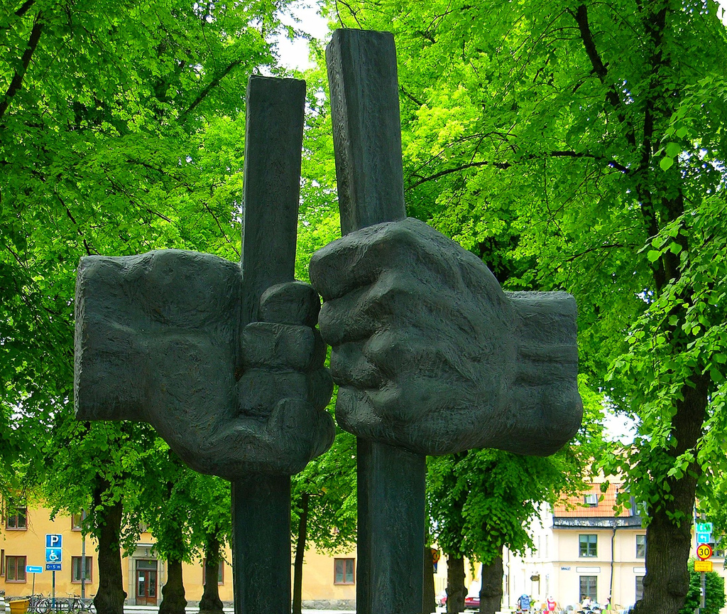 Martin Luther King Monument at Martin Luther Kings plats (MLK Square) behind the university building in Uppsala